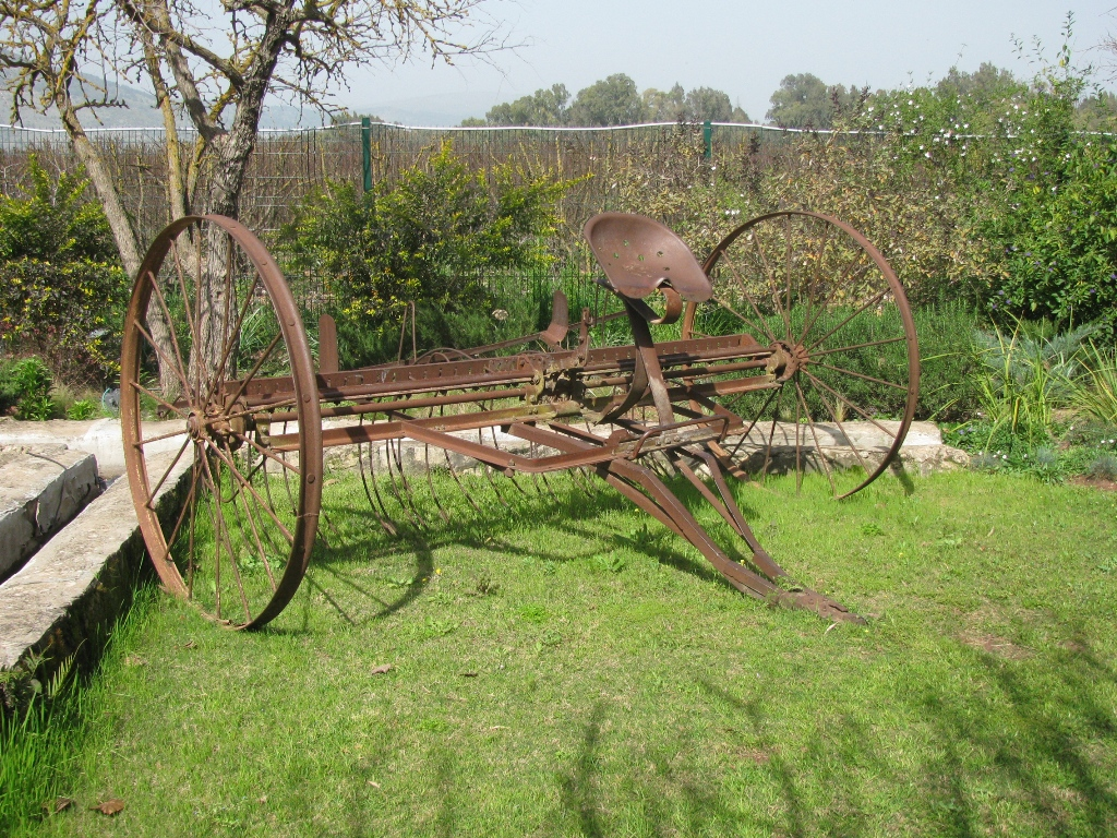 Old agricultural tools